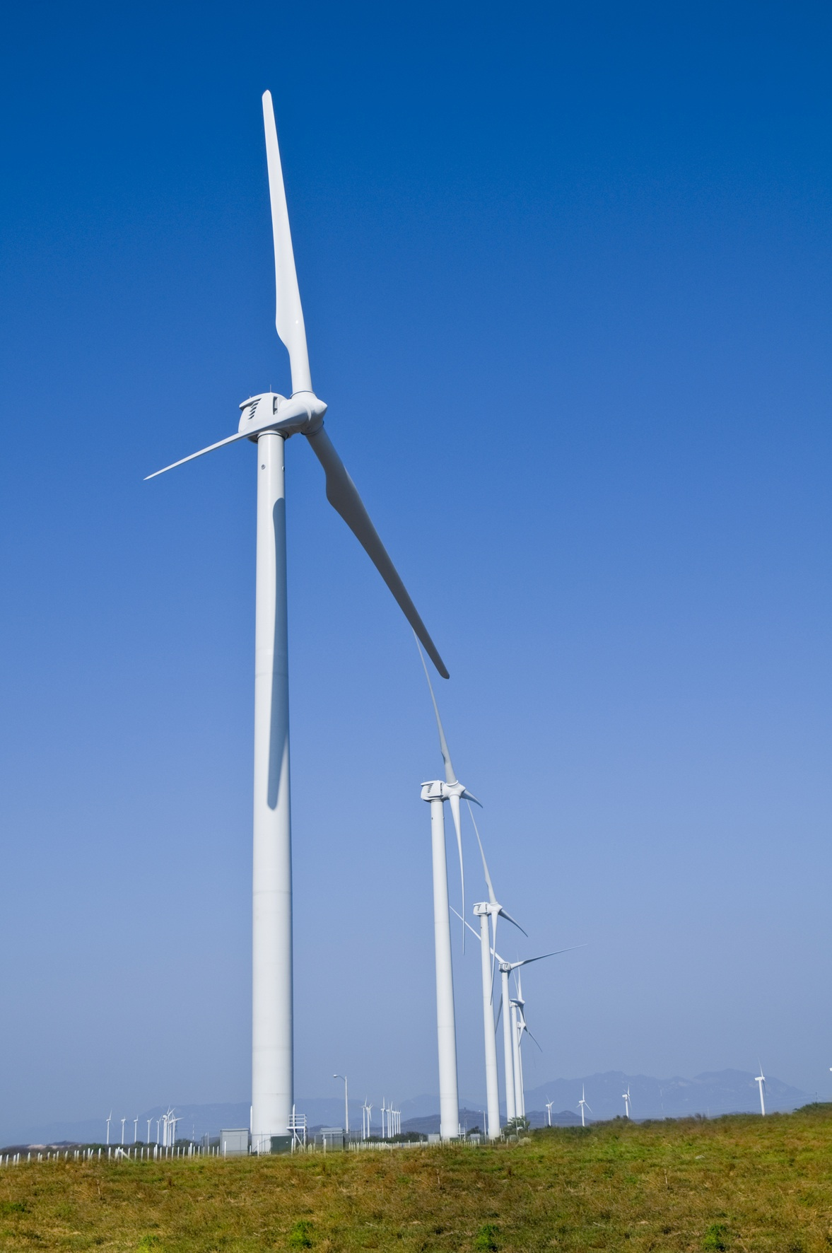 Walmart de Mexico y Centroamerica will purchase all of the energy created by the Oaxaca I Lamatalaventosa Wind Farm for the next 15 years. The turbines in this wind farm were manufactured in the United States by California based Clipper Windpower and exported to Mexico to meet Walmart's demand for renewable energy.